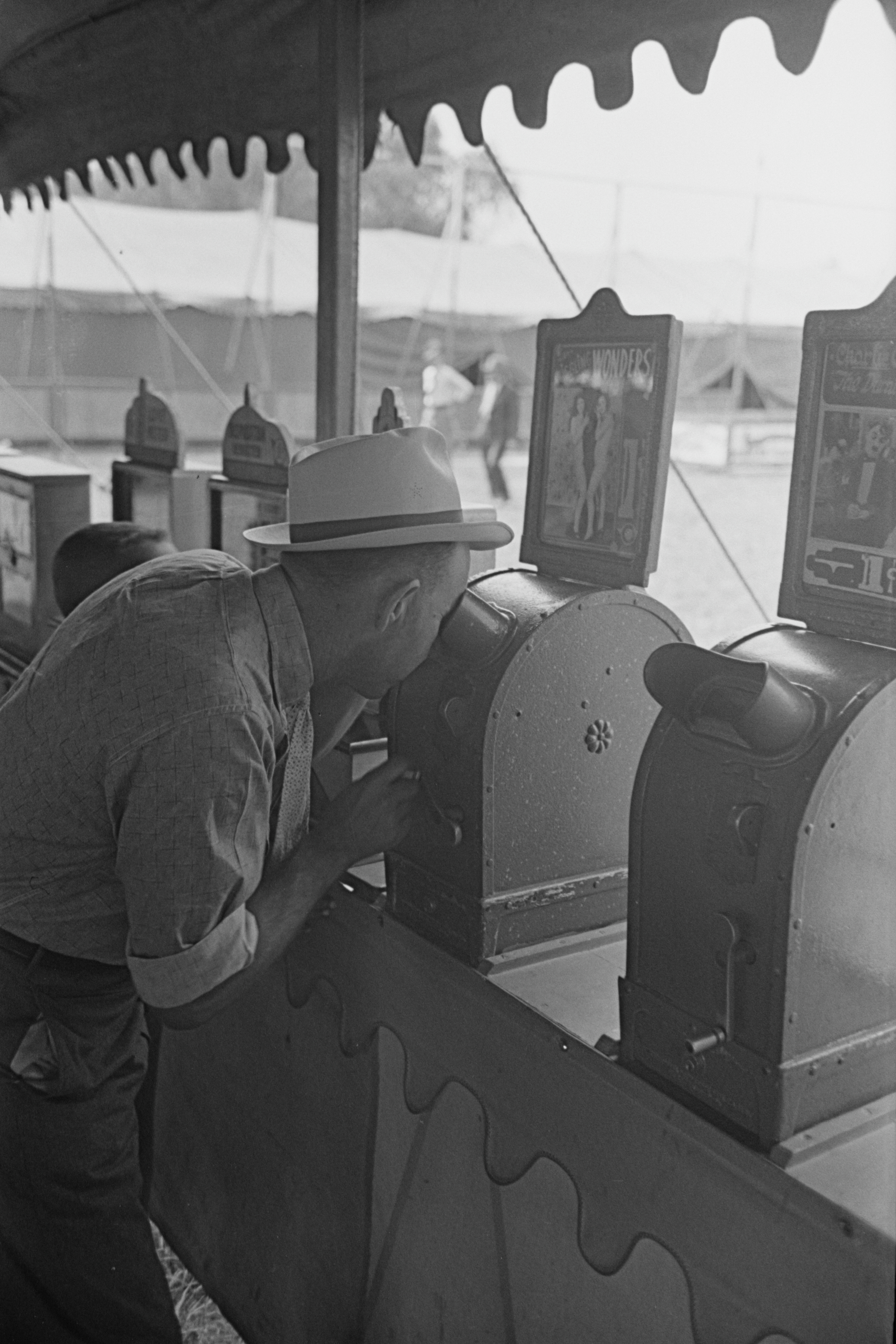 Man looking through penny peep show, state fair, Donaldsonville, Louisiana, 1938